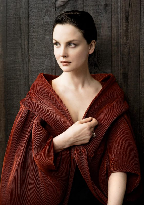 Nina Kotova Promotional Shoot